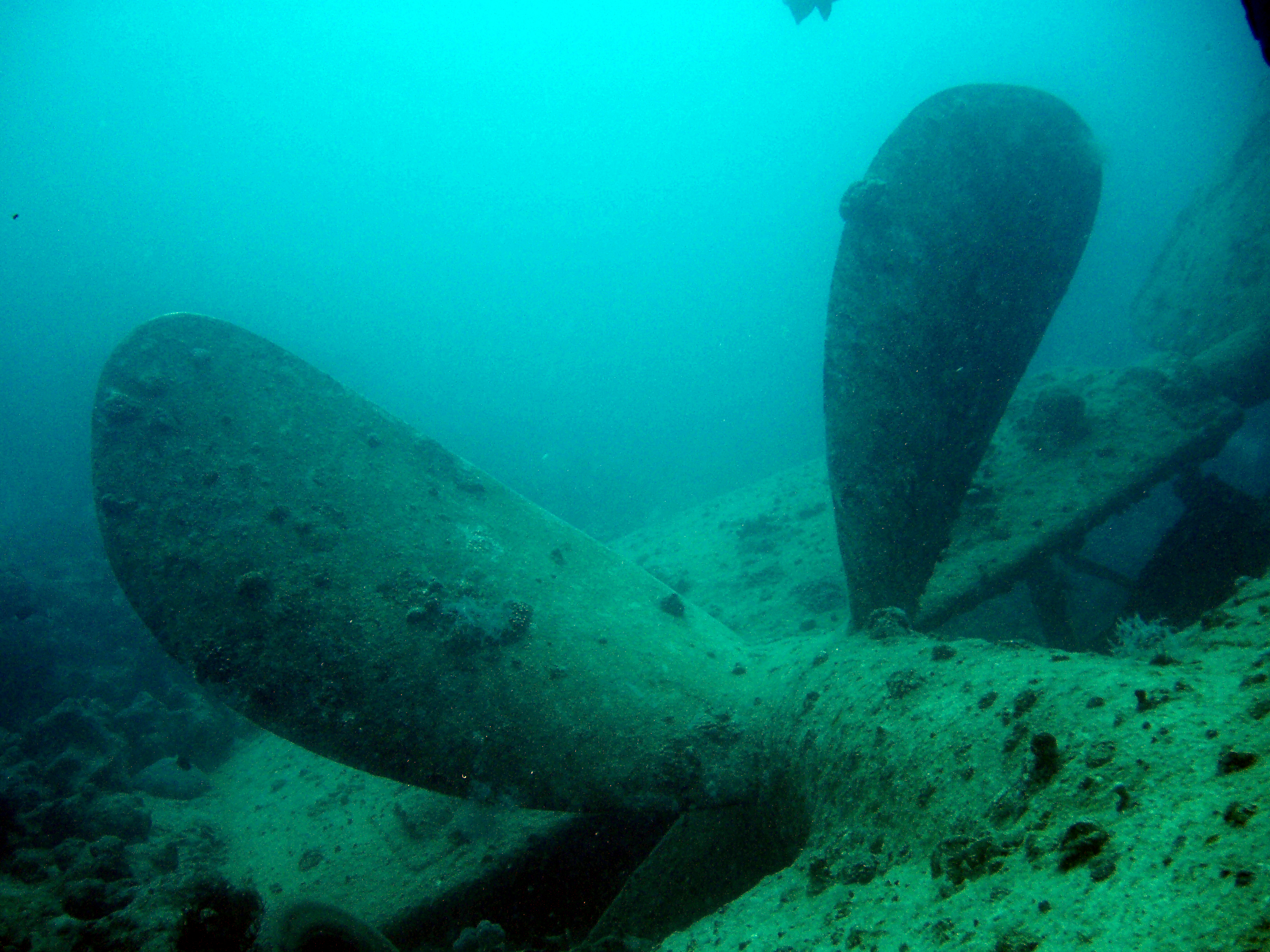 A view of the propellor of the SS Thistlegorm